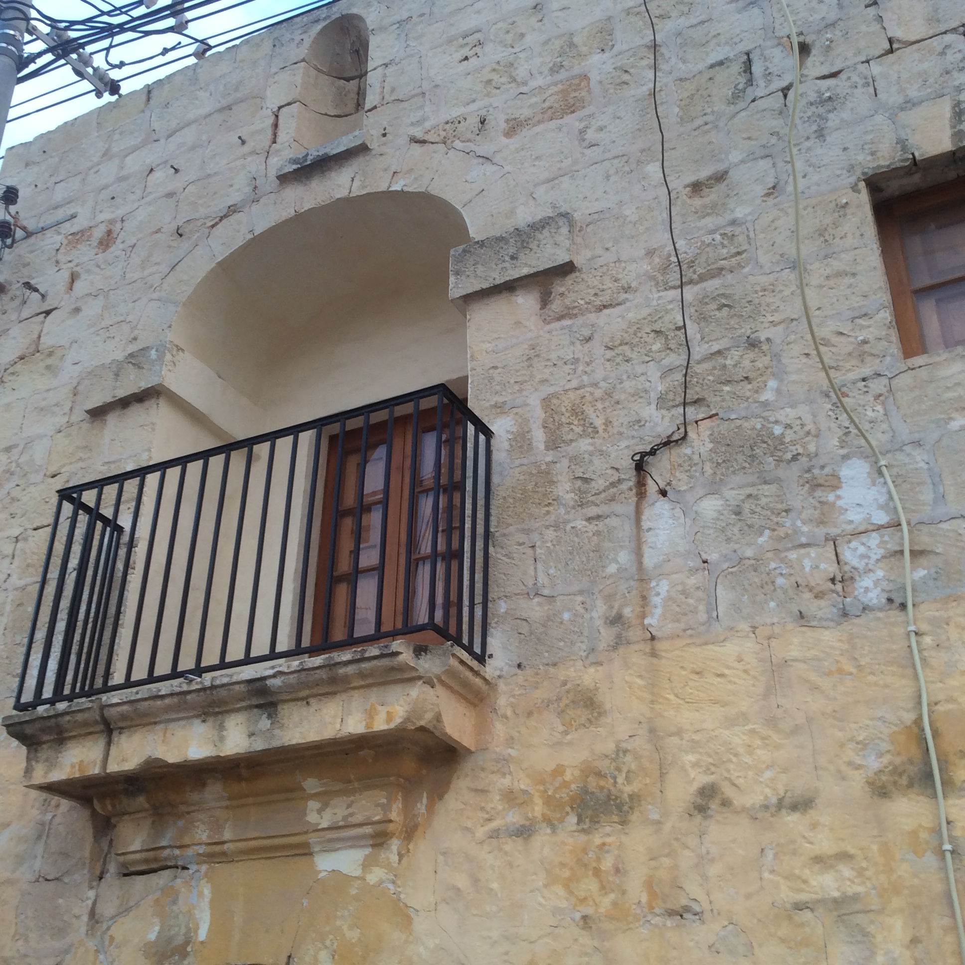 Balcony Ta' Xindi Farmhouse, San Gwann